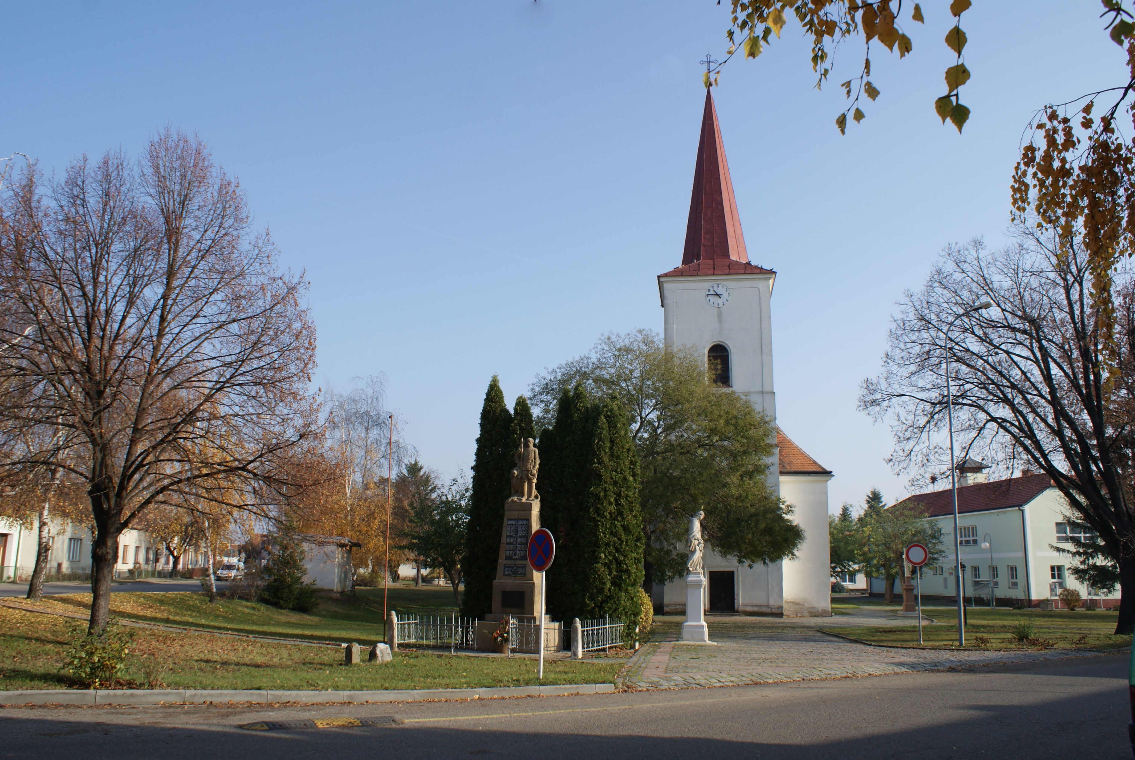 Rakvice, a village in Břeclav District, Czech Republic, church of St John the Baptist, front view